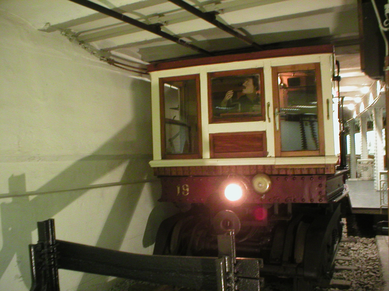 A train of Budapest Metro at the underground museum